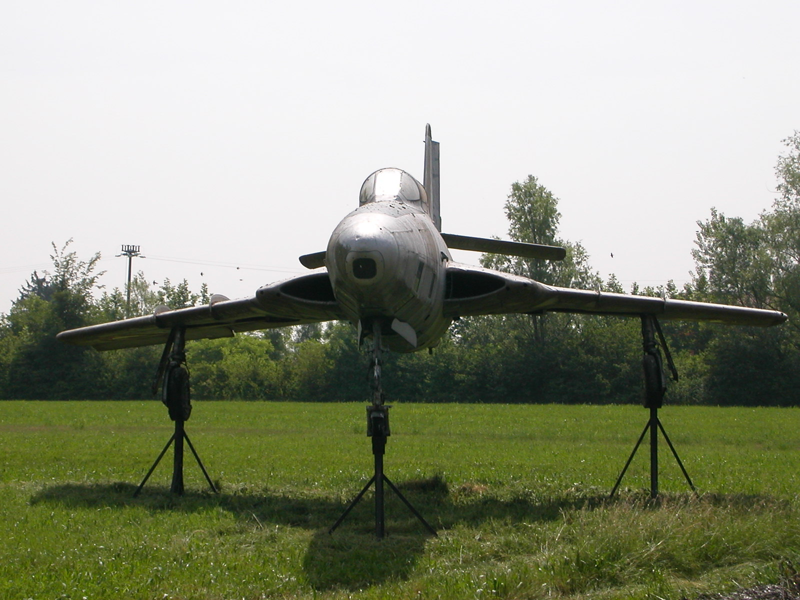 Republic RF-84 Thunderflash, front view, gate guardian in San Pelagio Air and Space Museum, (Padua)